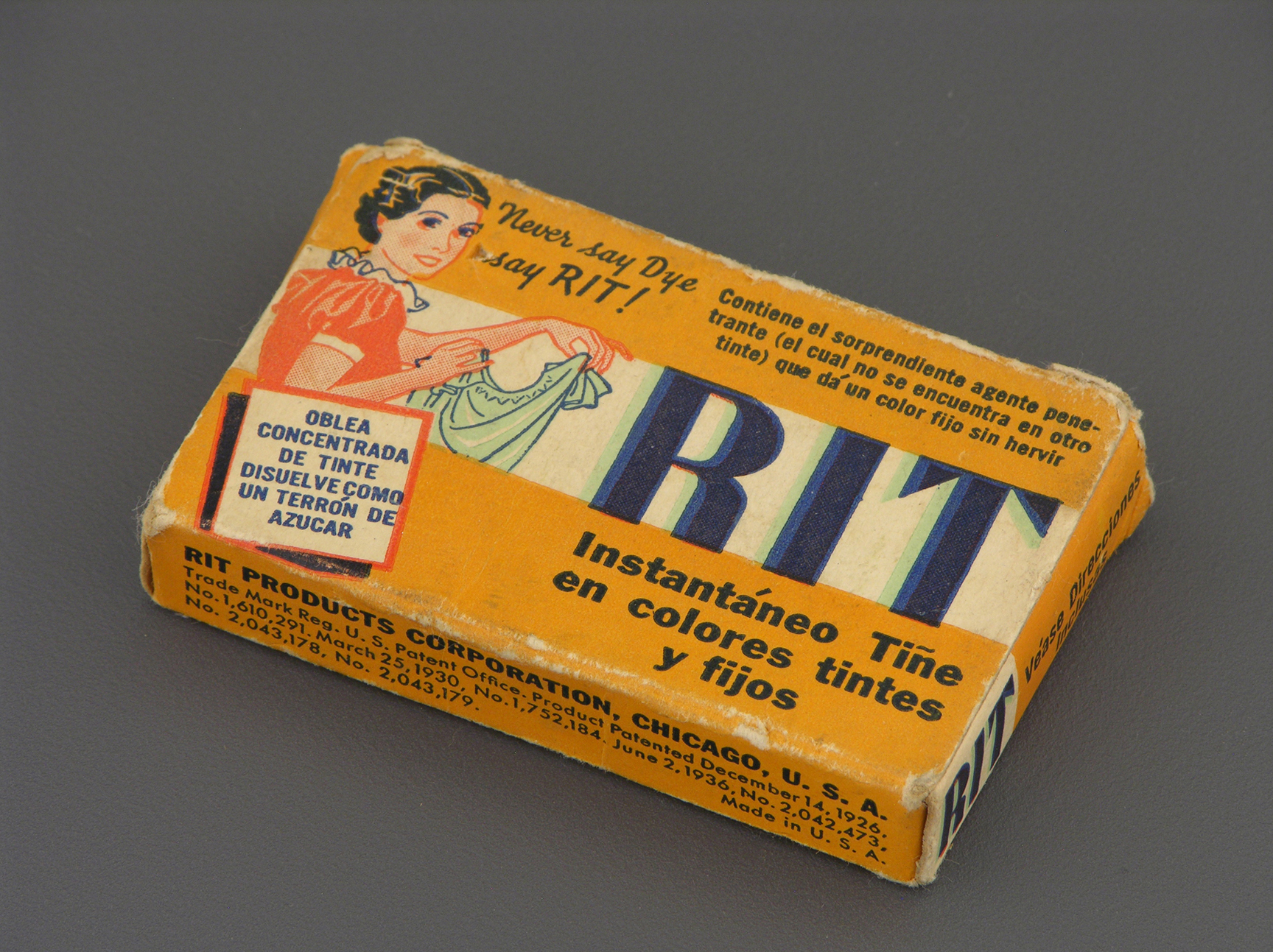 RIT dye for cloth Cardboard box Mid 20th century